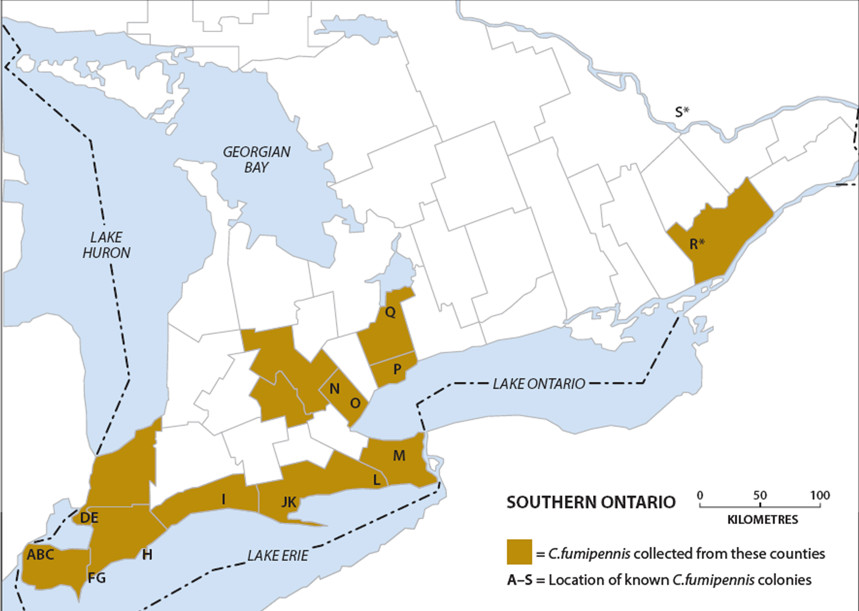 Known range of Cerceris fumipennis in Ontario